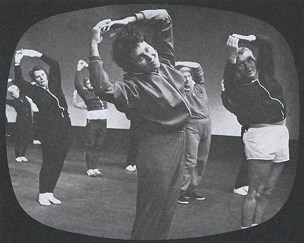 Programme in Swedish national television: "Träna med tv". On the right: Bengt Bedrup. In the middle: Gun Hägglund.